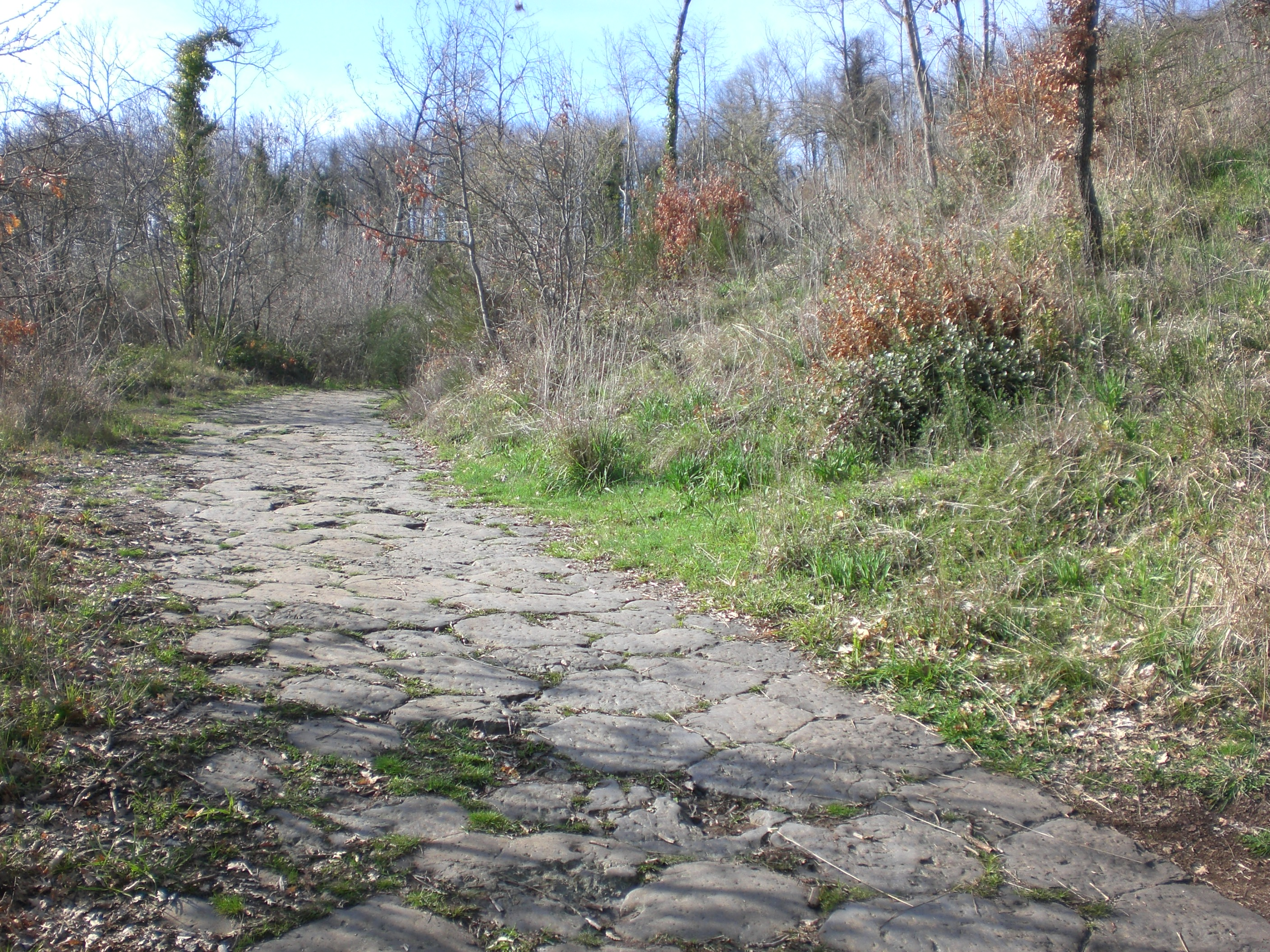 The Sacret Way on Monte Cavo